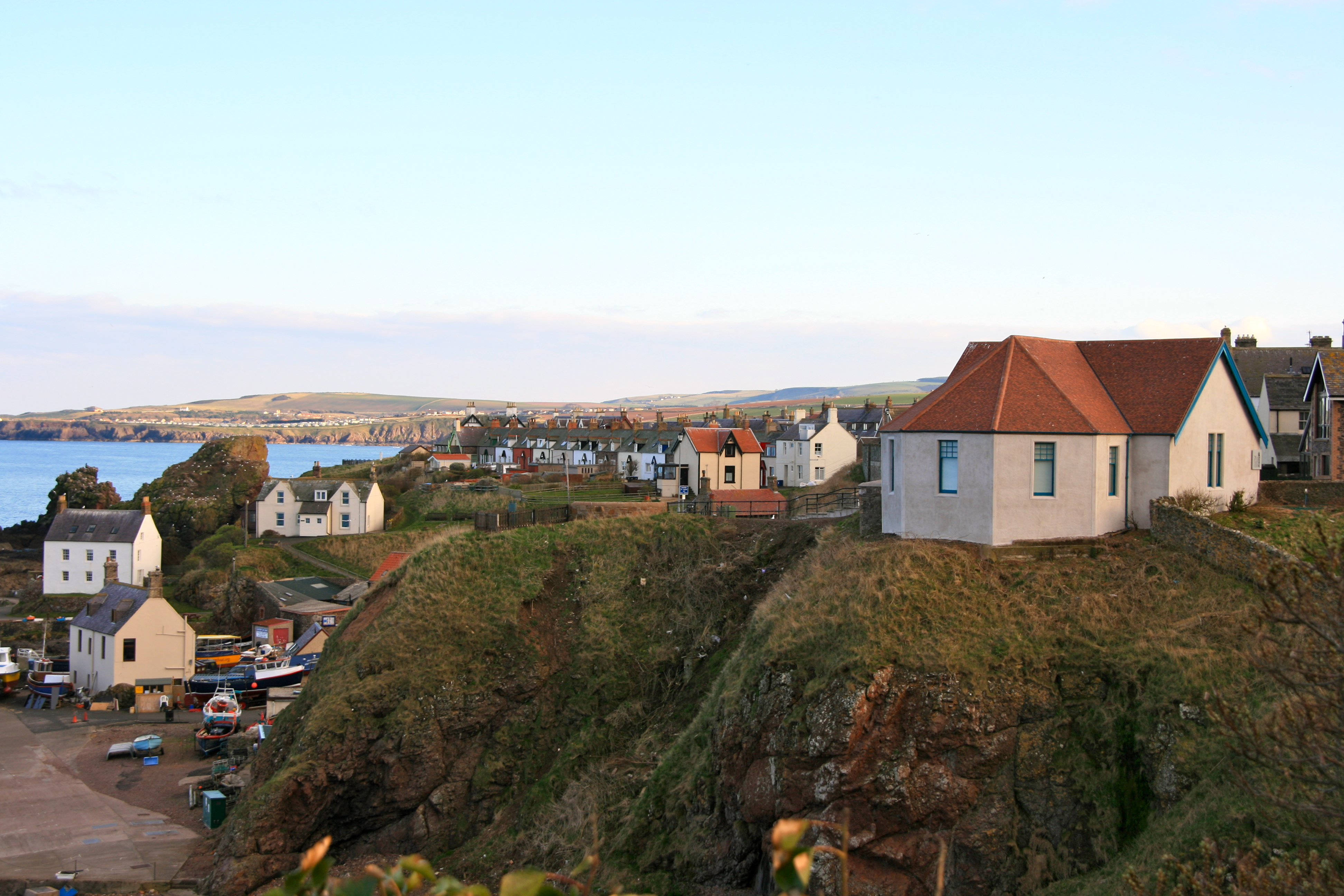 Picture of St Abbs Visitor Centre